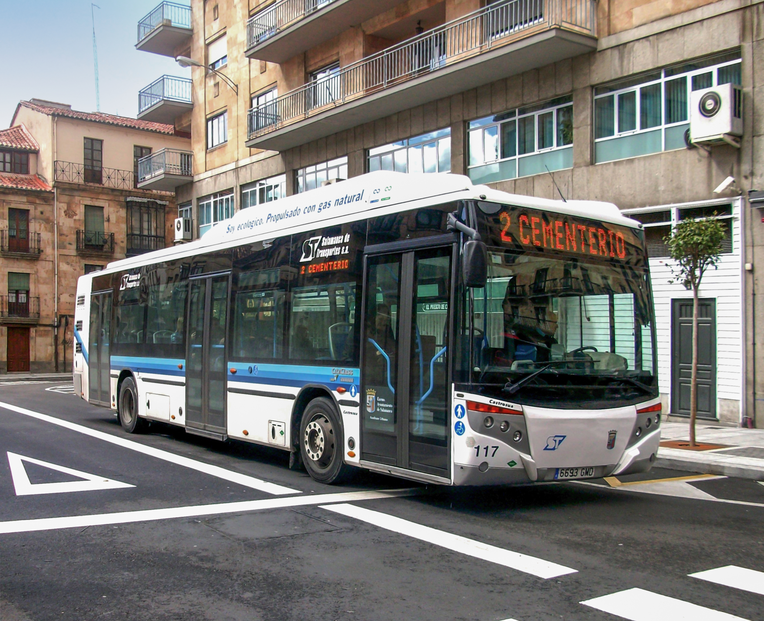 Bus "Salamanca de Transportees, Salamanca